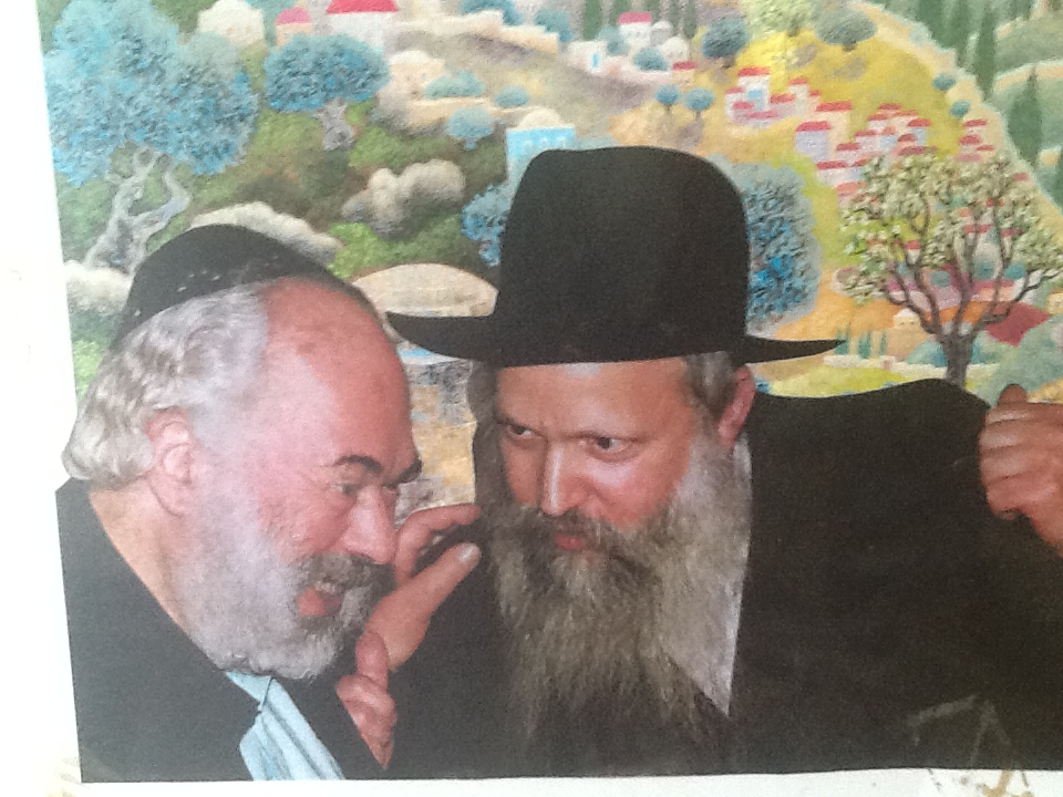 Rabbi Yitzchak Ginsburgh with Rabbi Shlomo Carlebach, before 1995